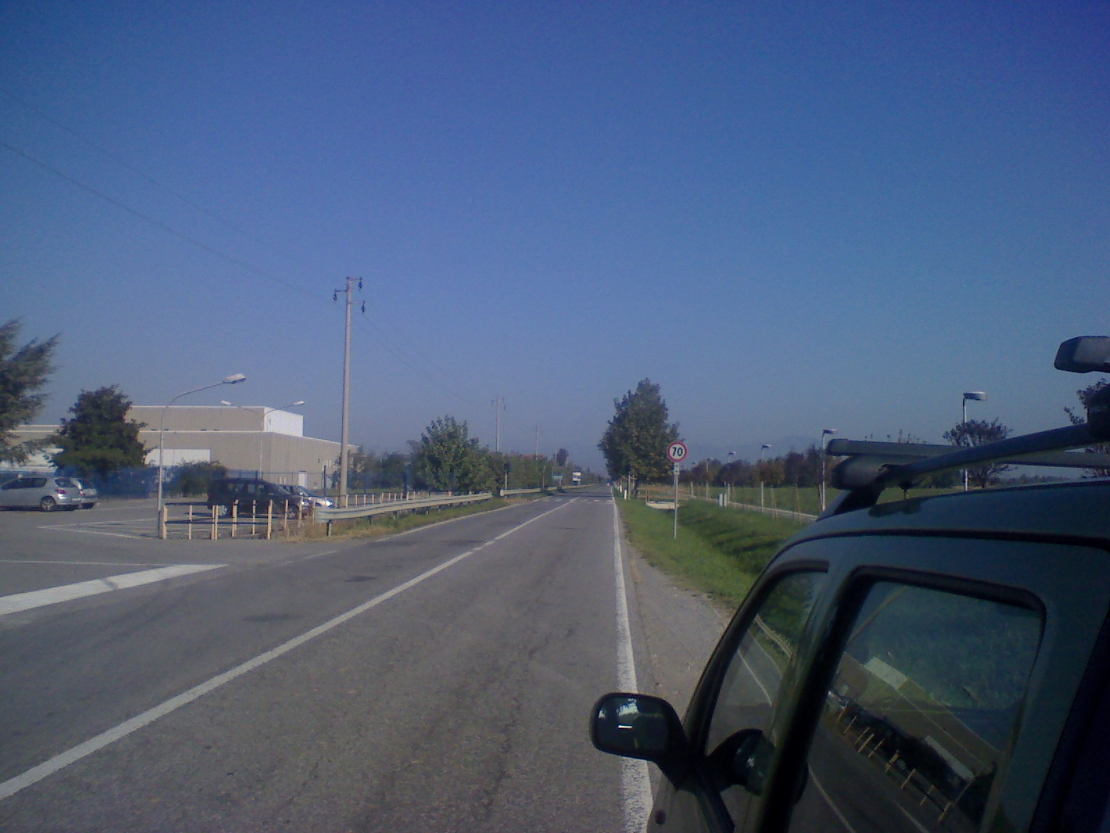 Spirano-Stezzano road traced along Roman centuriation